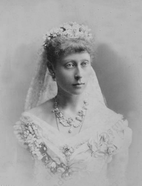 Princess Victoria of Hesse-Darmstadt, later Victoria Mountbatten, Marchioness of Milford Haven